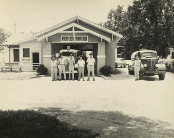 Firefighters standing outside Fire Station 13 with 1941 Mack pumper, B shift. Houston, 1950